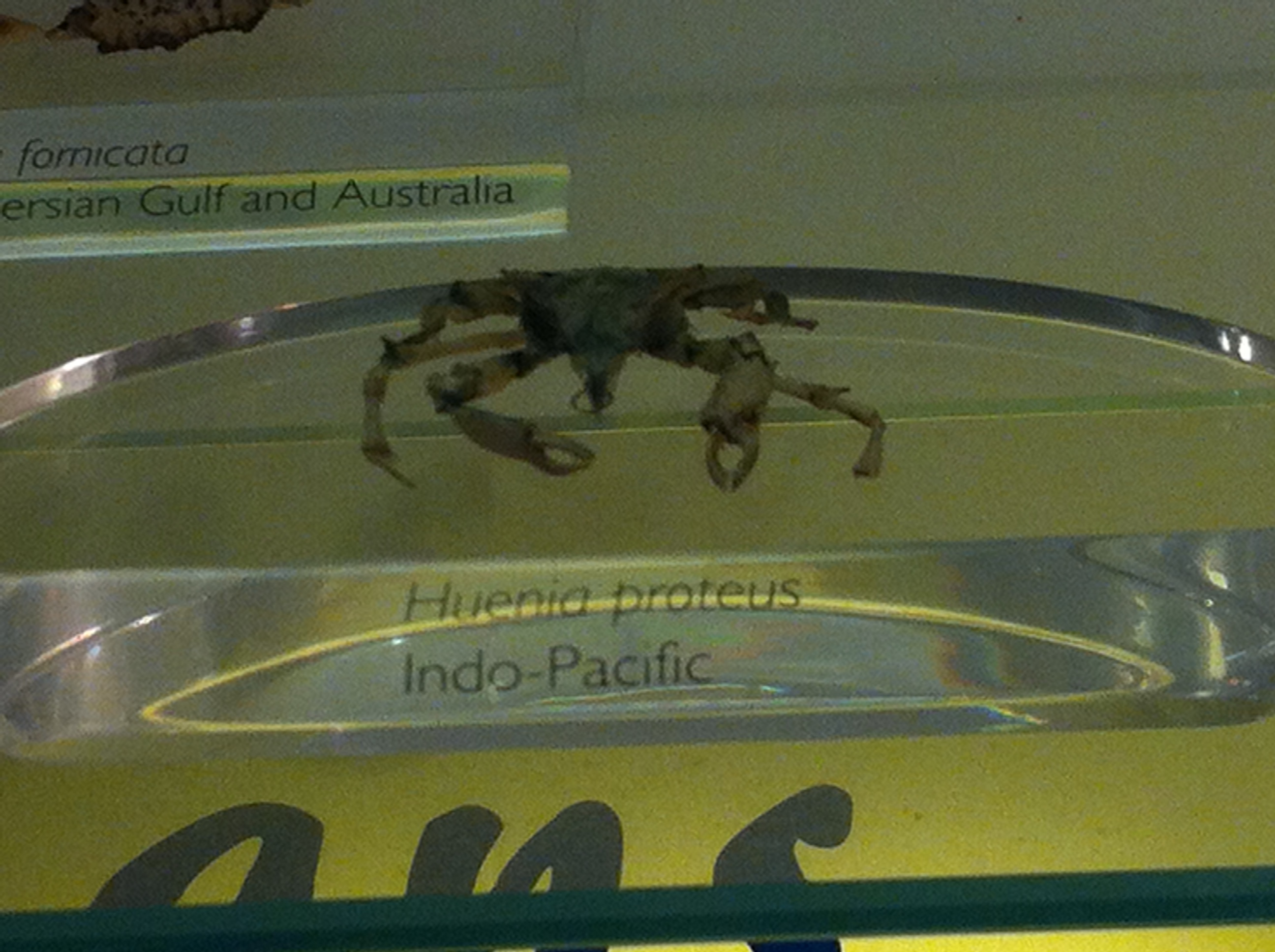 (Huenia proteus) - NHM London